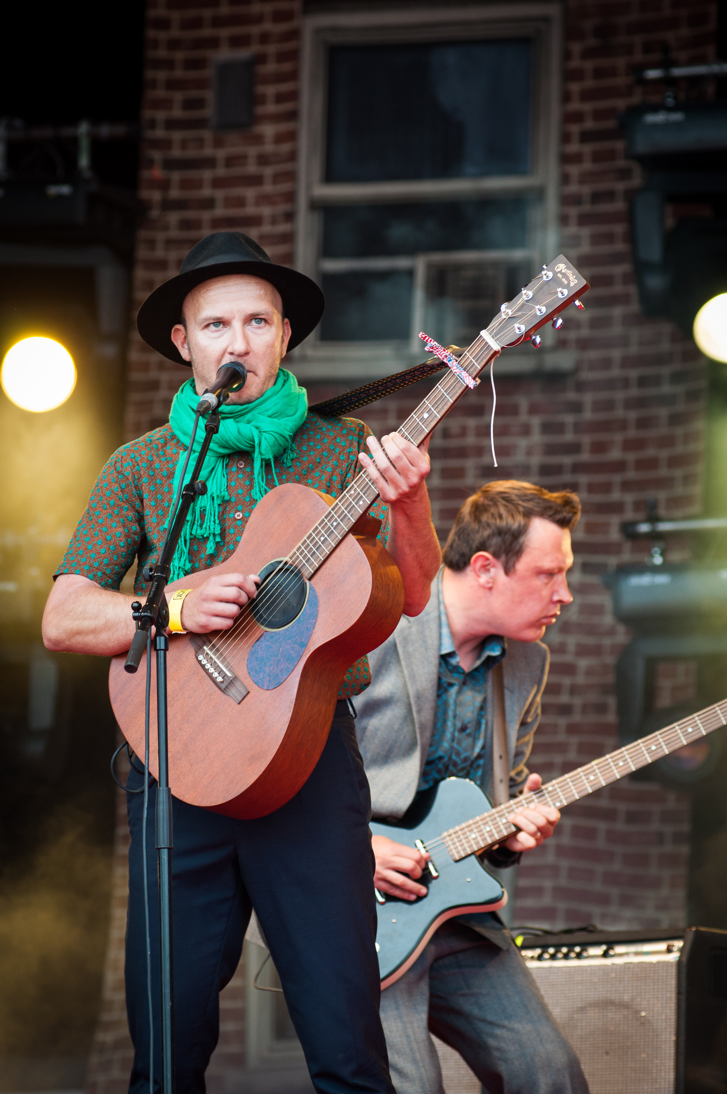 Finnish vocalist and guitarist Samuli Putro performing at the 2011 Ilosaarirock festival in Joensuu, Finland.